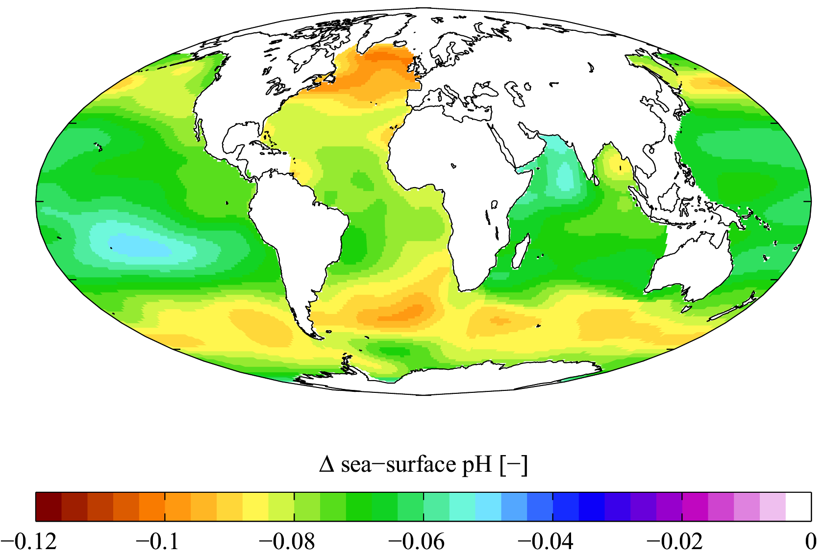 Estimated change in sea surface pH from the pre-industrial period (1700s) to the present day (1990s). Δ pH here is in standard pH units. This change is caused by the invasion of anthropogenic CO2 (see Ocean acidification). Calculated using Richard Zeebe's csys package with data from the Global Ocean Data Analysis Project[1][2] and World Ocean Atlas[3] climatologies. Δ pH is plotted here using a Mollweide projection (using MATLAB and the M_Map package). Note that the GLODAP climatology is missing data in certain oceanic provinces including the Arctic Ocean, the Caribbean Sea, the Mediterranean Sea and the Malay Archipelago.